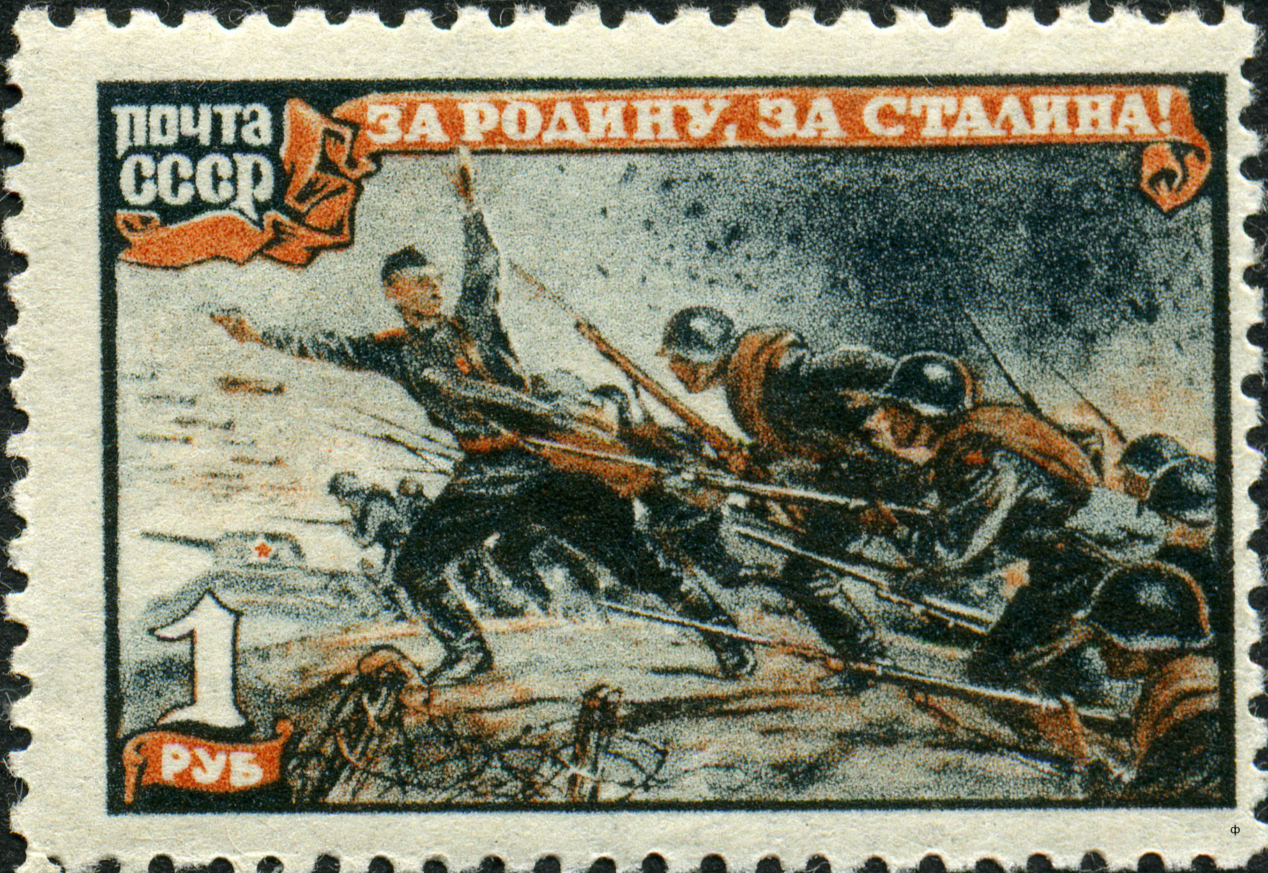 Soviet stamp "For the Motherland, For Stalin!"